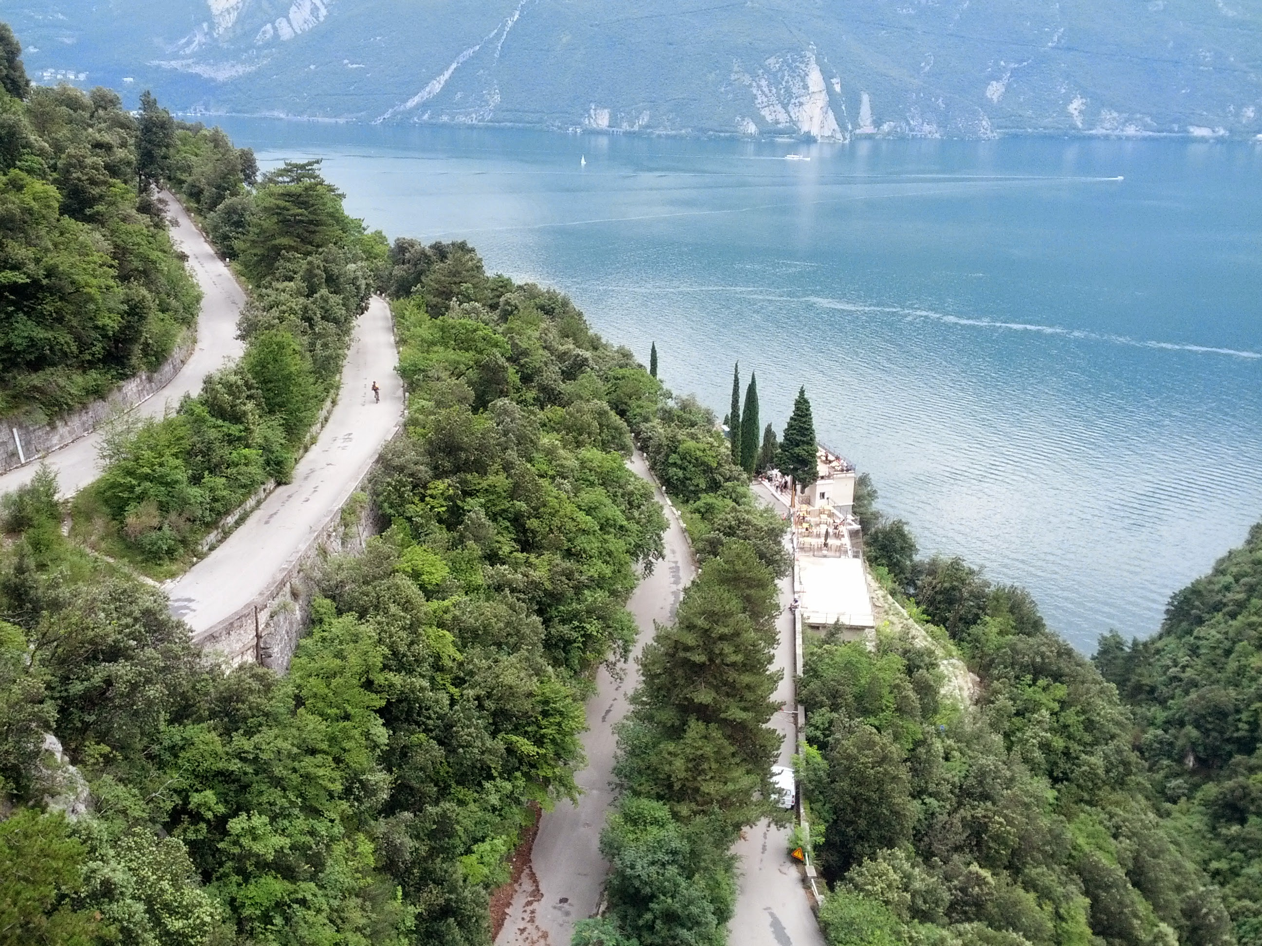 Ponale road with Ponalealto Belvedere